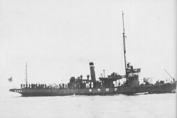 Japanese auxiliary minelayer "Kurosaki"(Sokuten(I) class) at Kushiro Port.